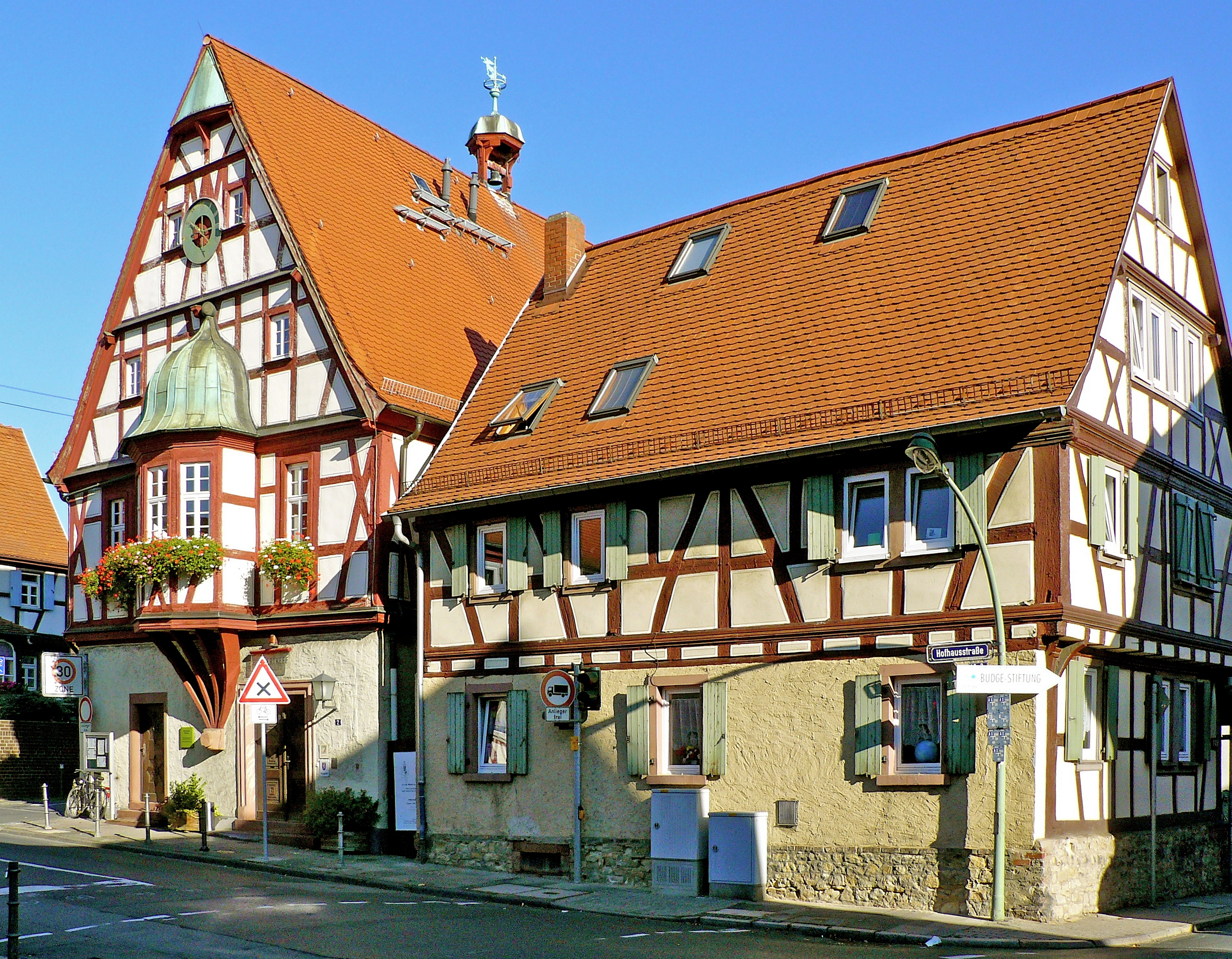 Former town hall of Seckbach, Frankfurt, Hesse, Germany